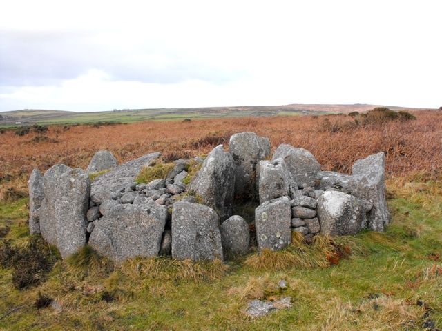 Bosiliack Barrow View from the south-east looking into the burial chamber itself.